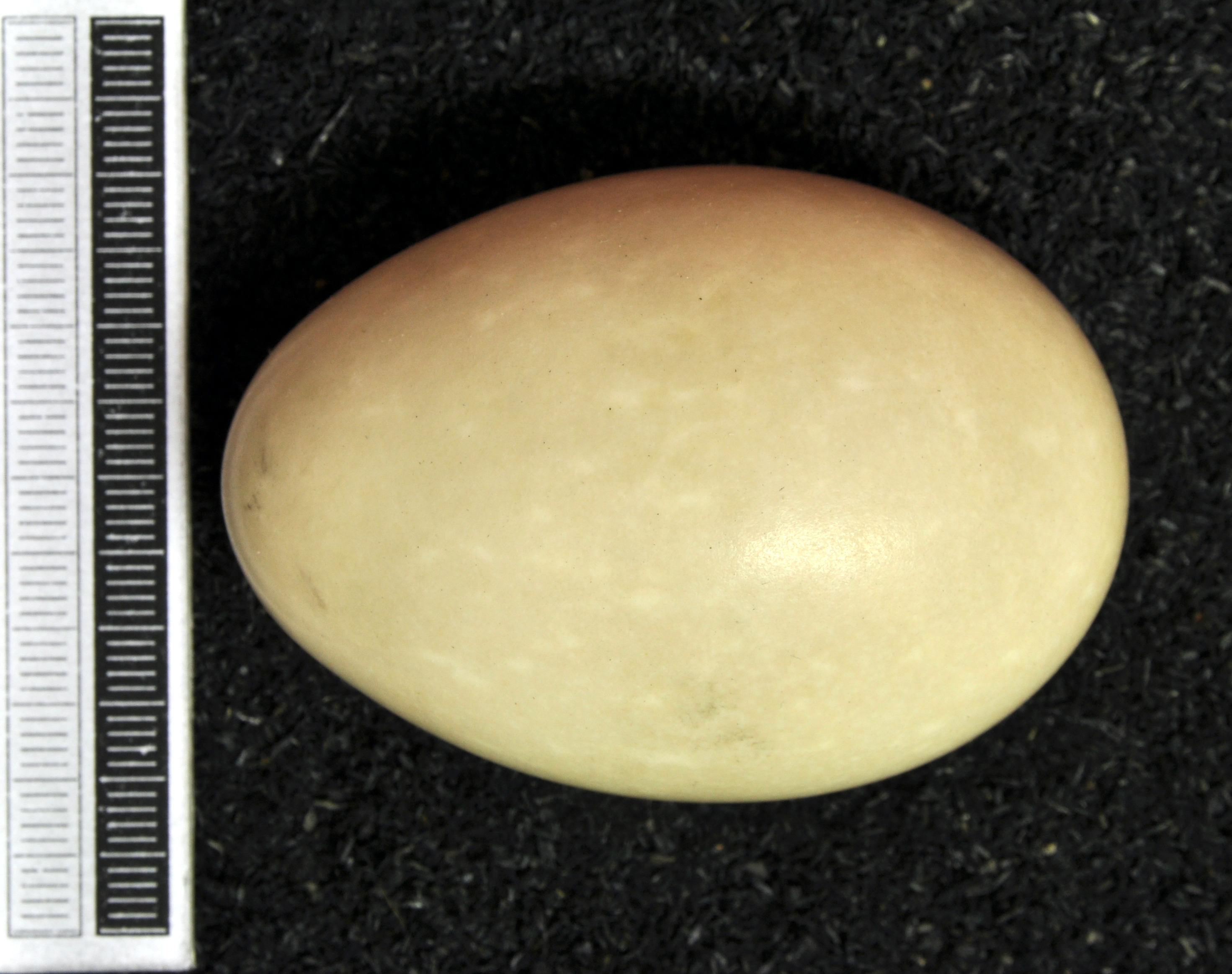 Red-crested pochard Netta rufina , egg, Coll. Museum Wiesbaden